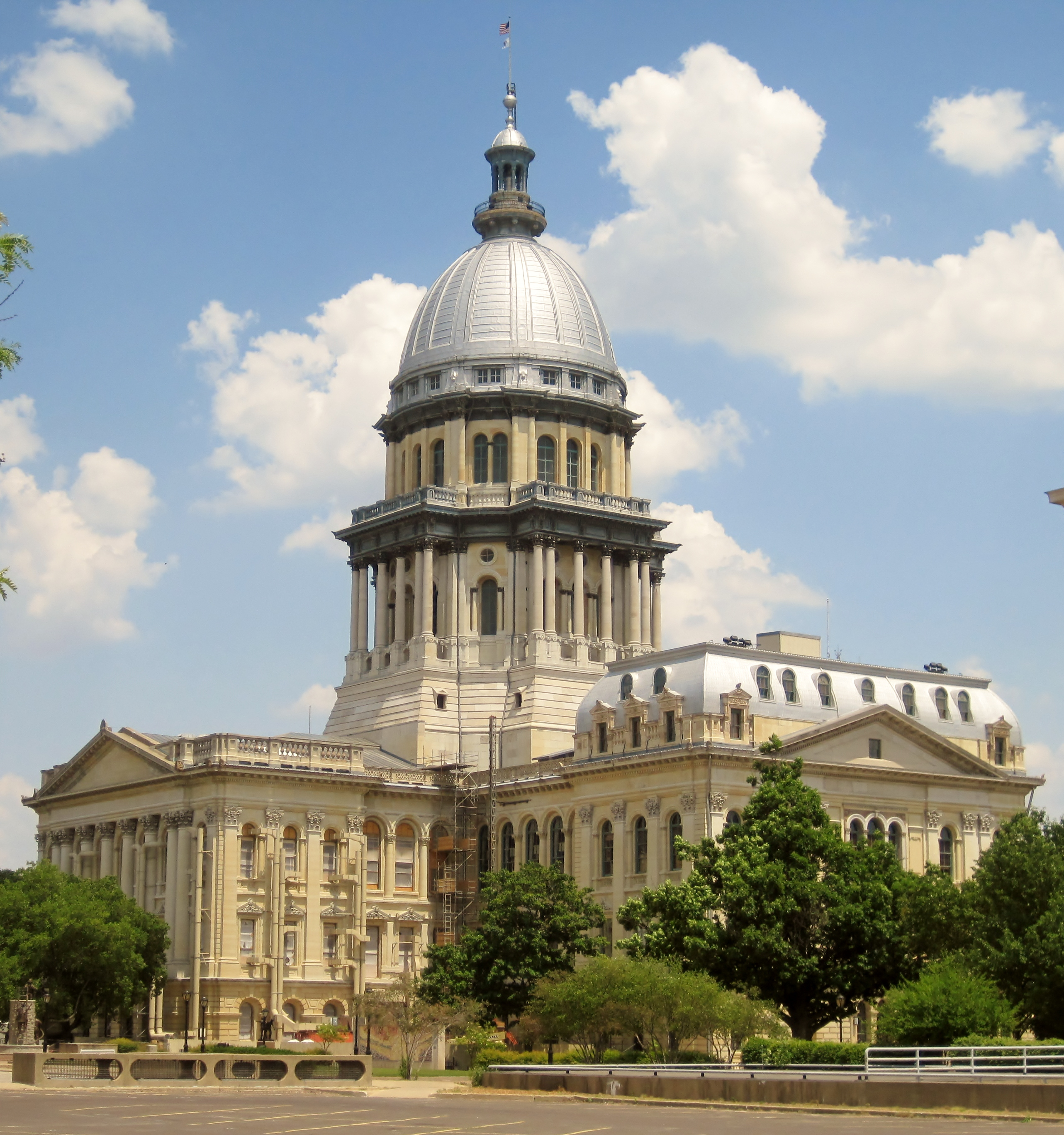 The Illinois State Capitol in Springfield (1889). It has housed the executive and legislative branches of the state government since 1876. It is the tallest classic state capitol, exceeding the height of the U.S. Capitol. It was built in response to a boom in population in Illinois resulting from relocations after the Civil War. Today, it's the only place where you'll find more criminals in Illinois than the penitentiaries.